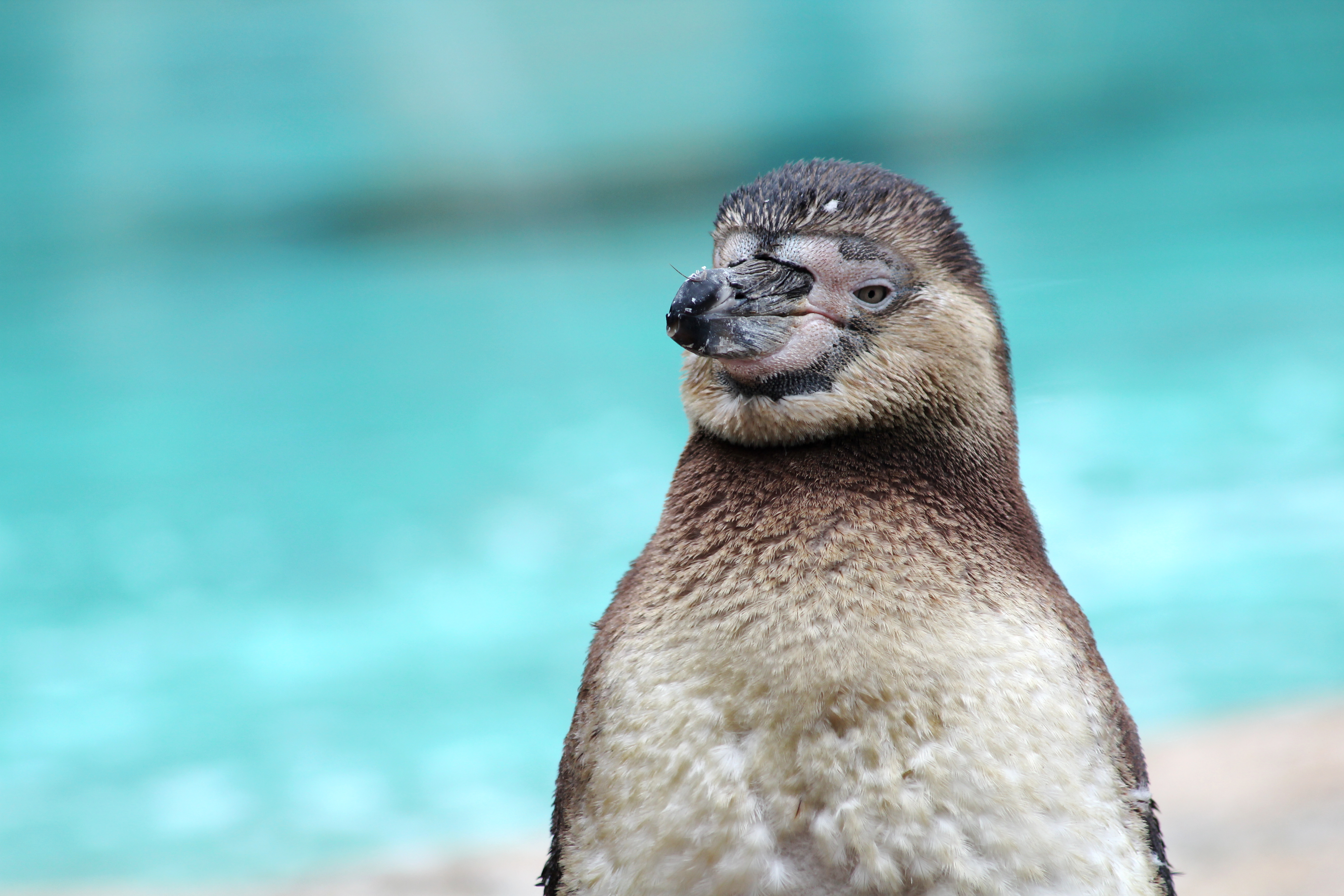 Humboldt Penguin (Spheniscus humboldti) in the London Zoo.